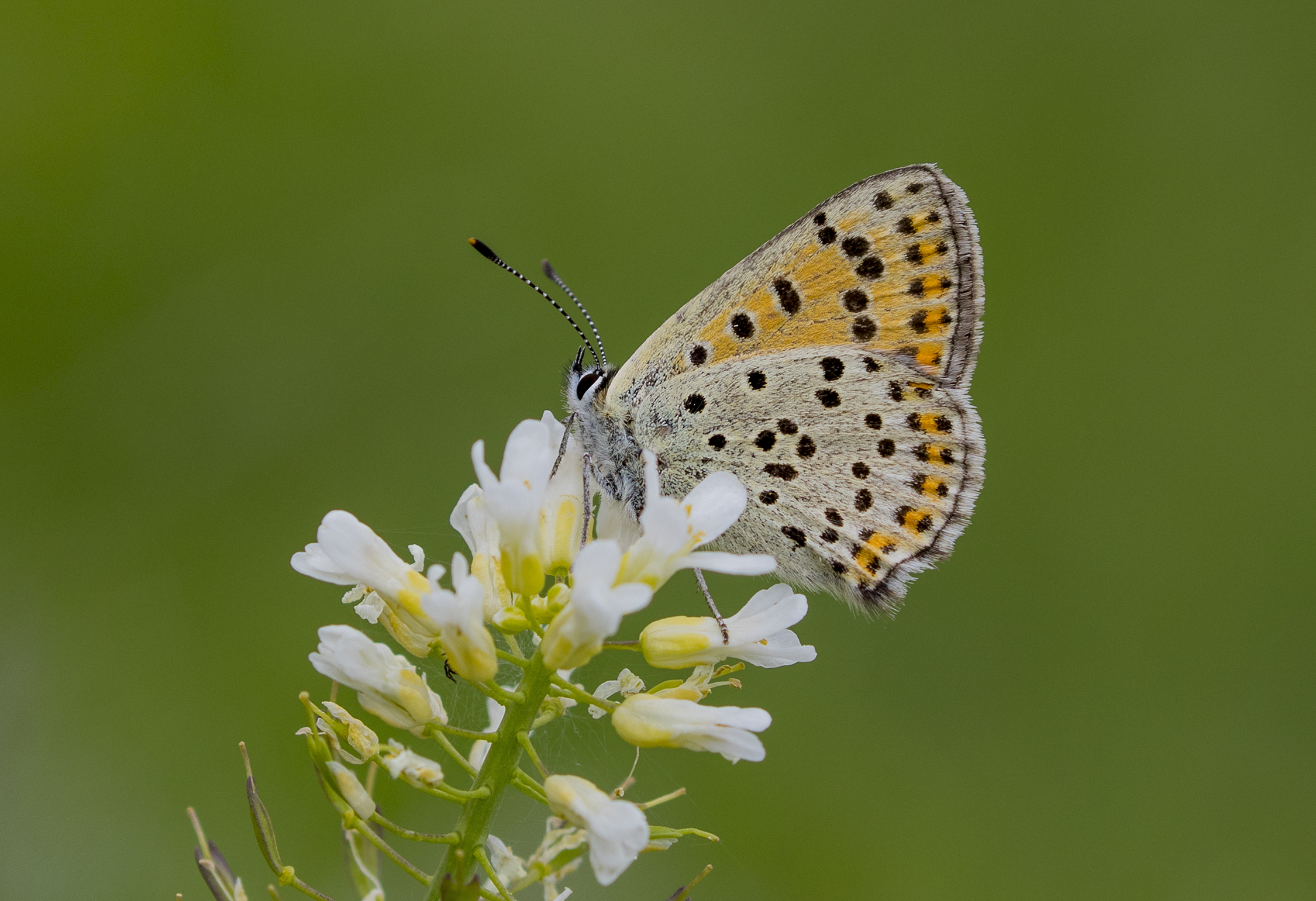 Wing underside view of a female Sooty Copper (Lycaena tityrus). Dutlupınar - Saimbeyli - Adana, Turkey.